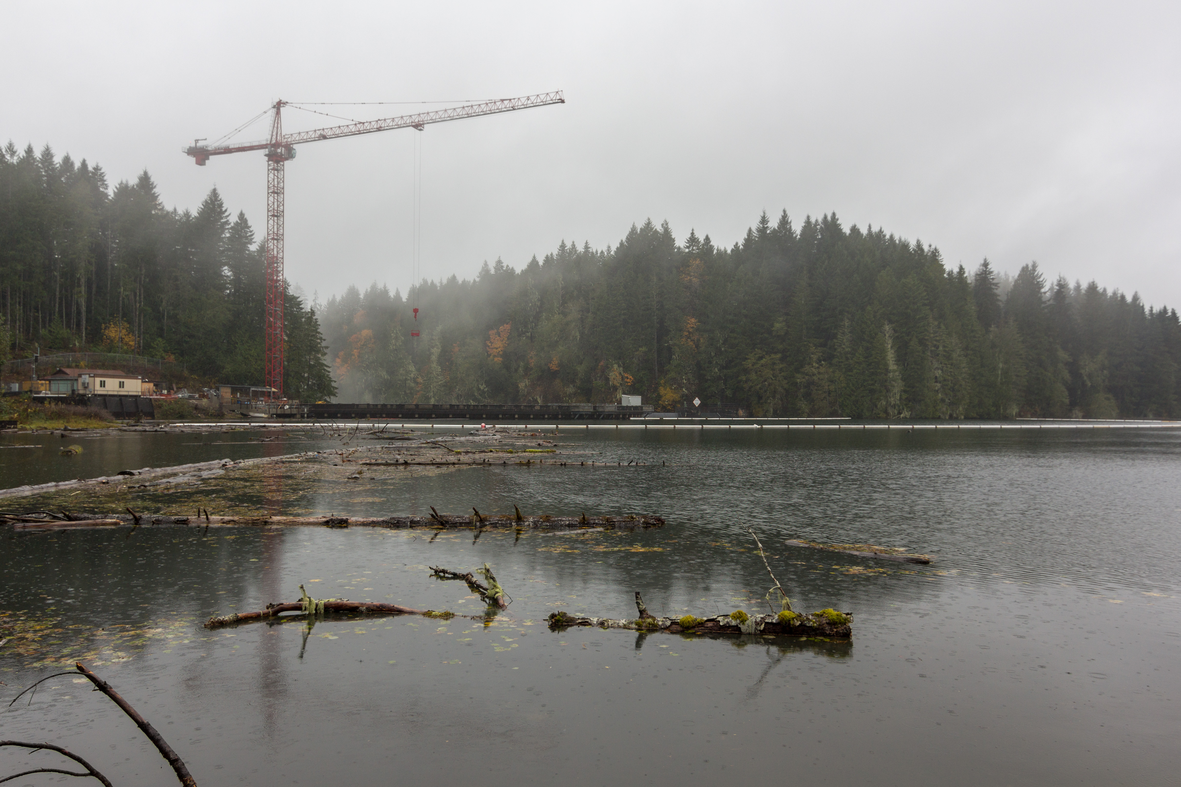 Cushman Dam No. 2